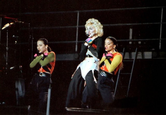 Photo Taken during one of the concerts in 1990